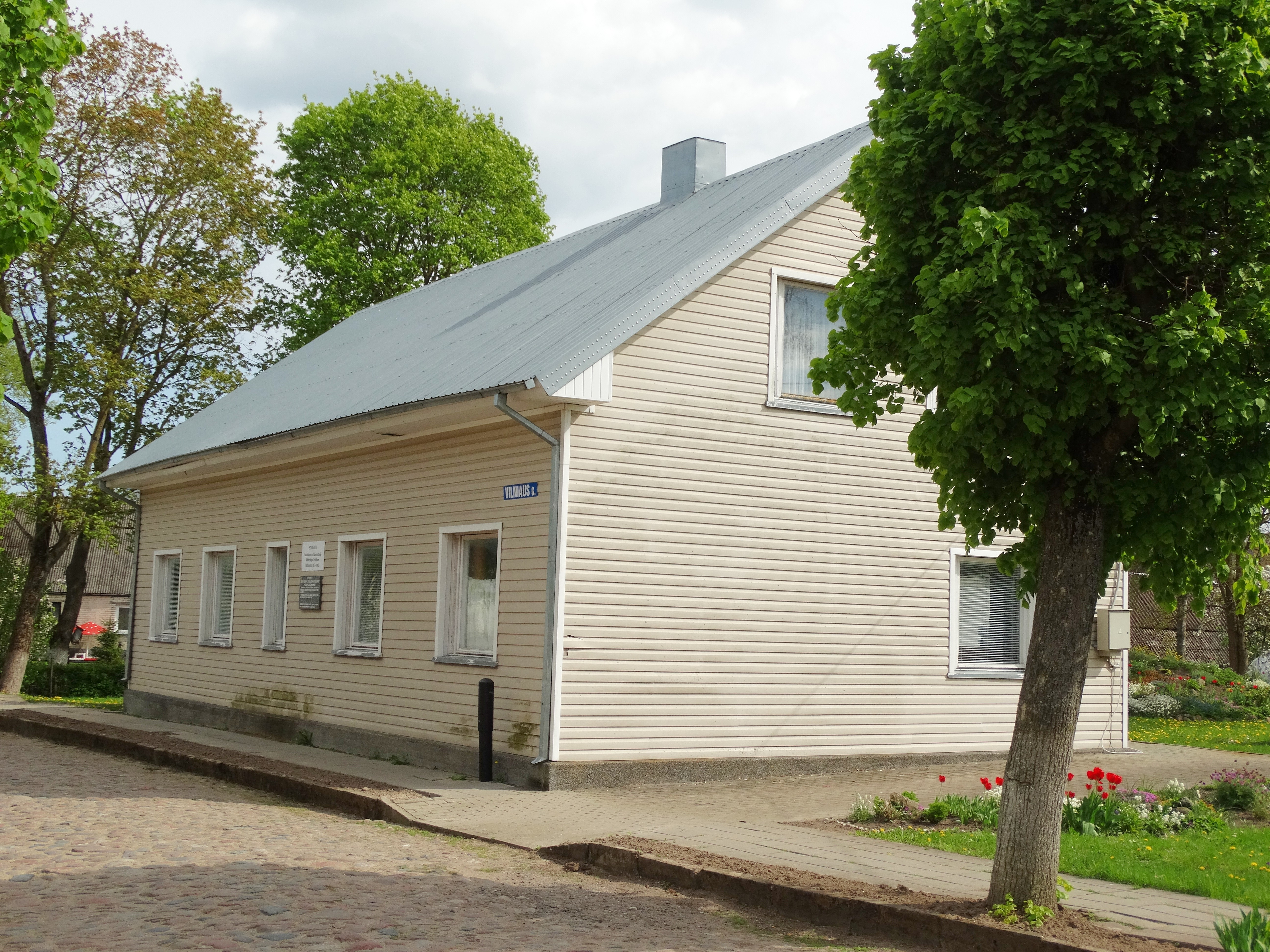 House where bishop Teofilius Matulionis lived 1958-1962, Šeduva, Lithuania